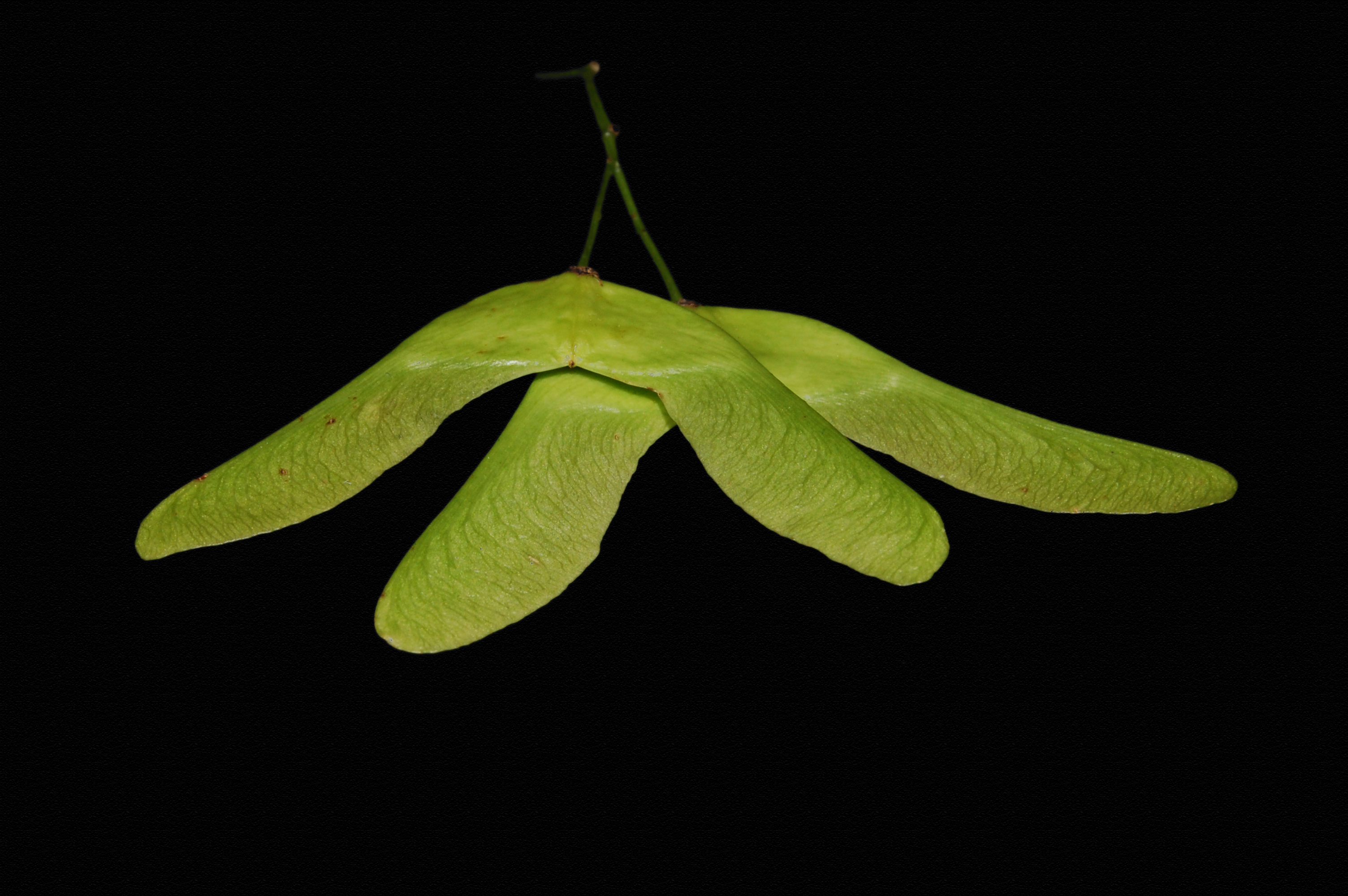 Acer platanoides (Norway Maple) seed samaras By: User:Fcb981